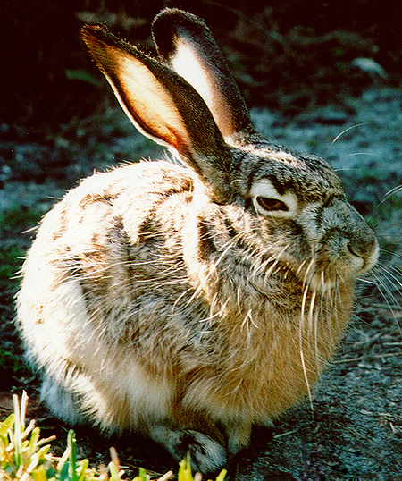 Photo of Attila, an adult male Black-tailed Jackrabbit (Lepus californicus), rescued from the Miami International Airport. Photo taken April 2006 by Dana Krempels. To be included in wikipedia article "Black Tailed Jackrabbit." Species identification was confirmed by Dr. Andrew Smith (Arizona State University), president of the Lagomorph Specialist Group.